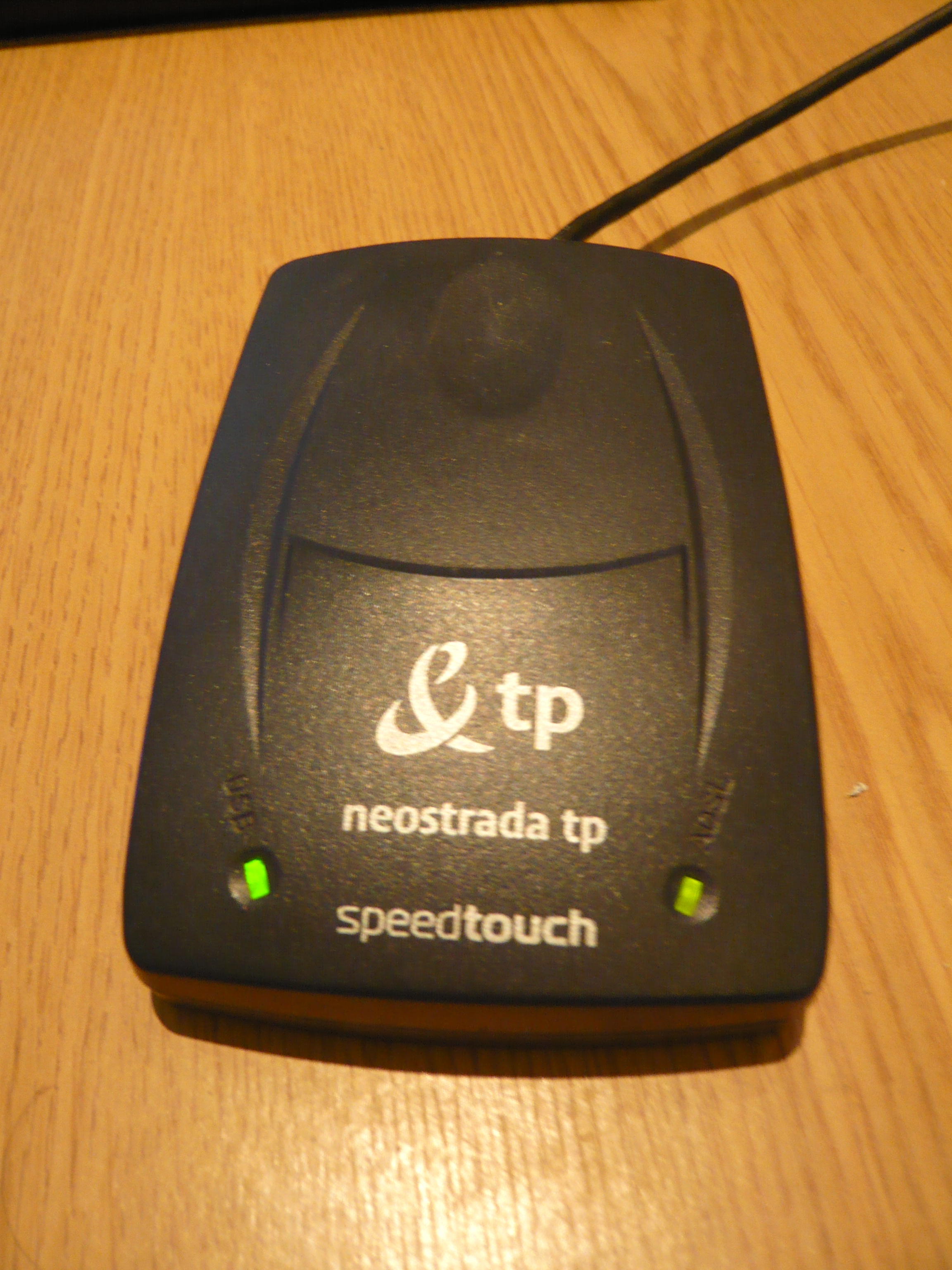 Speed touch 330 black.jpg